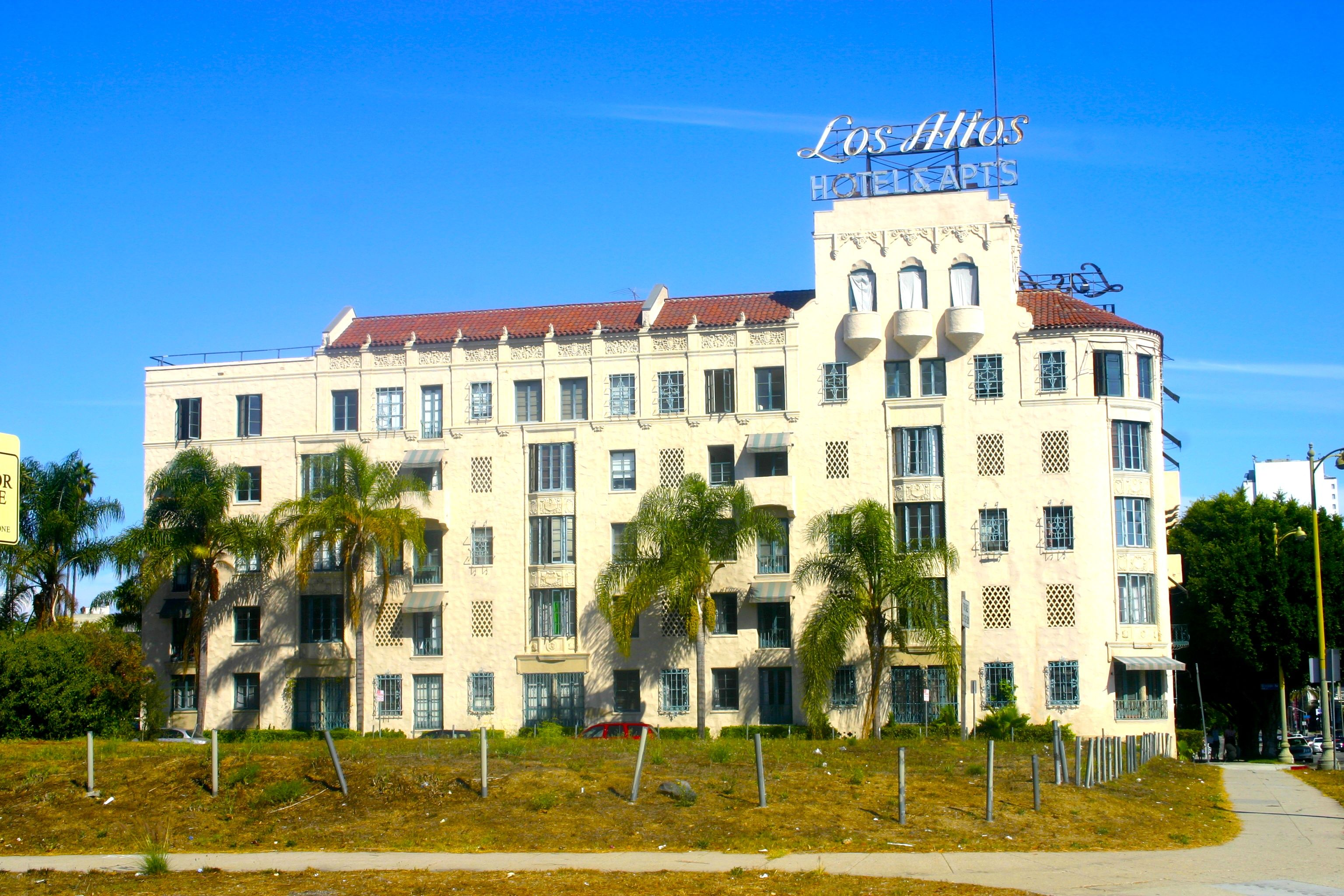 Los Altos Apartments, 4121 Wilshire Blvd. Mid-City